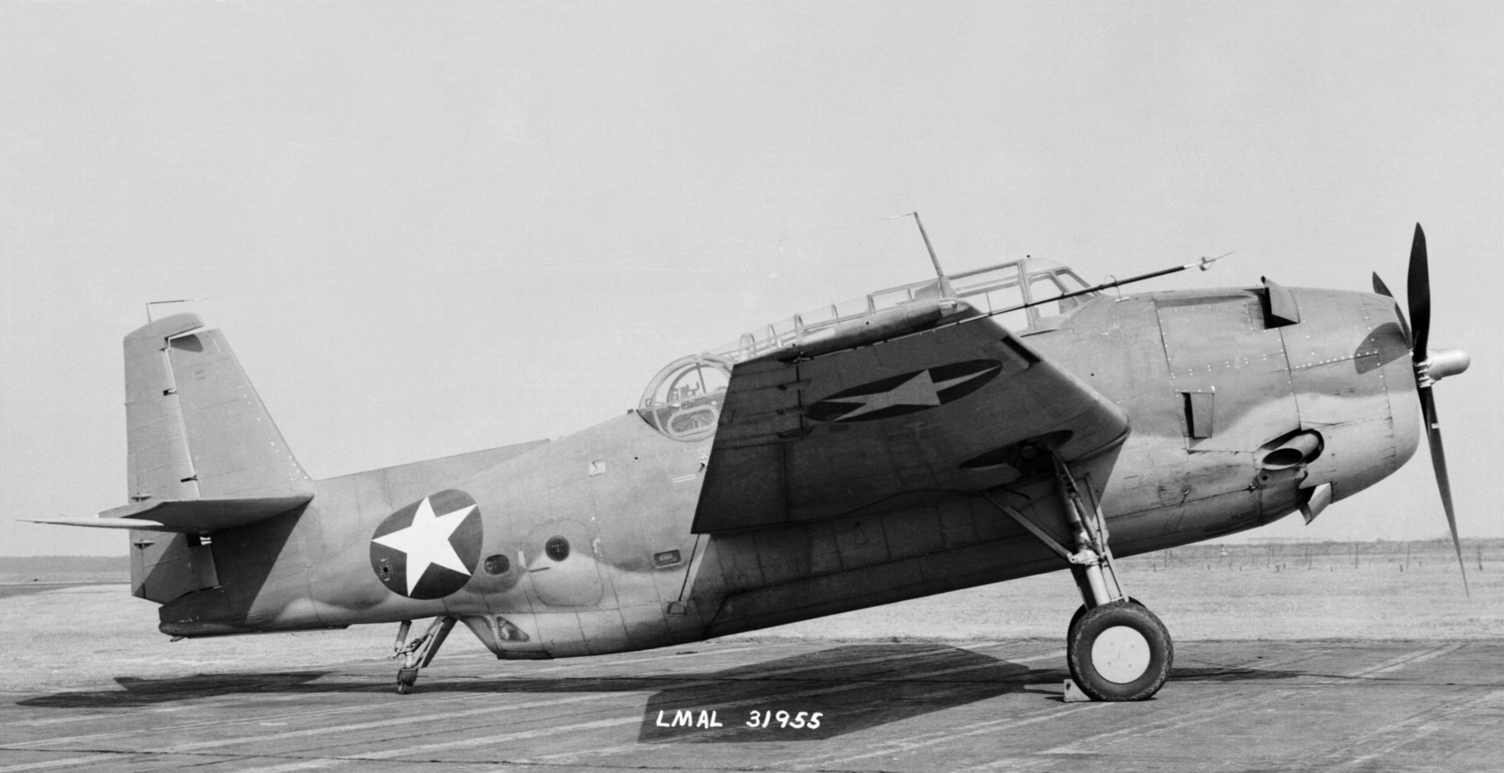 The second U.S. Navy Grumman XTBF-1 Avenger prototype (BuNo 2540) at the NACA Langley Research Center, in 1942.